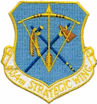 4134th Strategic Wing emblem. A copy of this emblem was downloaded from for use in my book “The Genealogy of the STRATEGIC AIR COMMAND” with the webmasters’ approval.